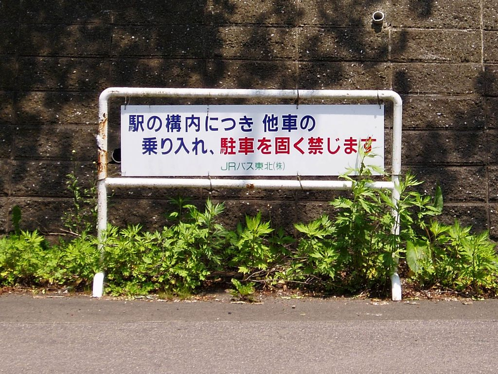 No parking signboard of Nenokuchi Sta.